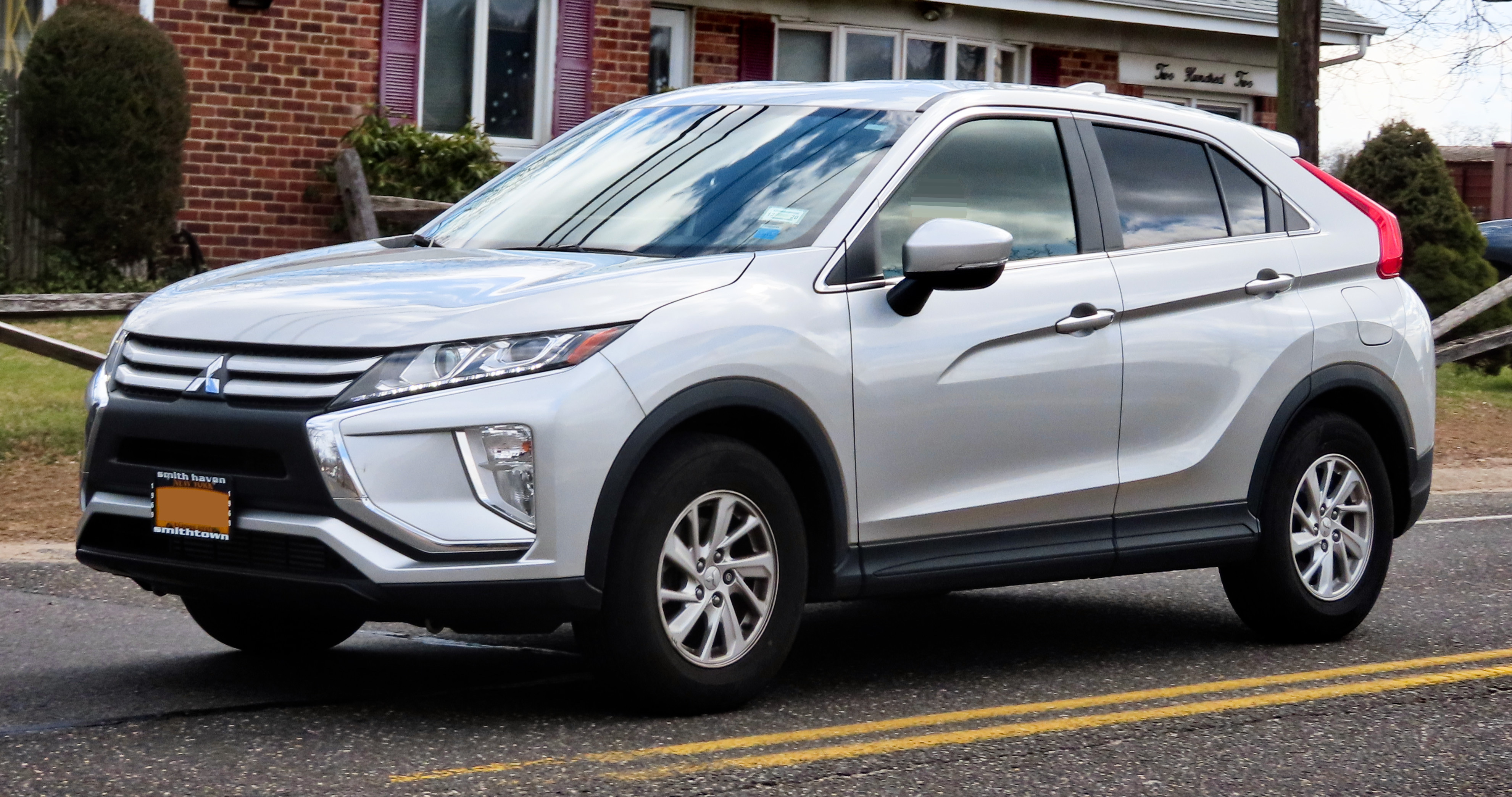 A 2018 Mitsubishi Eclipse Cross photographed in Huntington, New York, USA